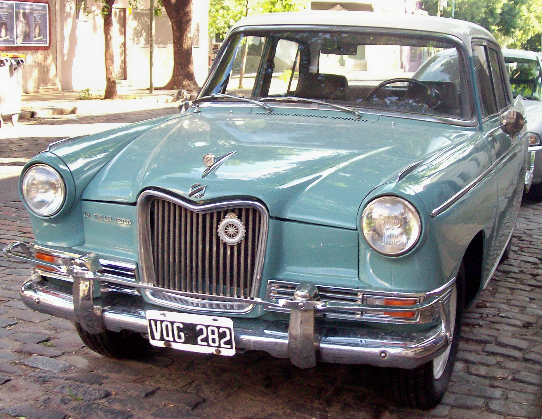 Interestingly enough this car was used on the production of the 2012 movie "Master Plan" directed by Pablo Levy and Diego Levy.